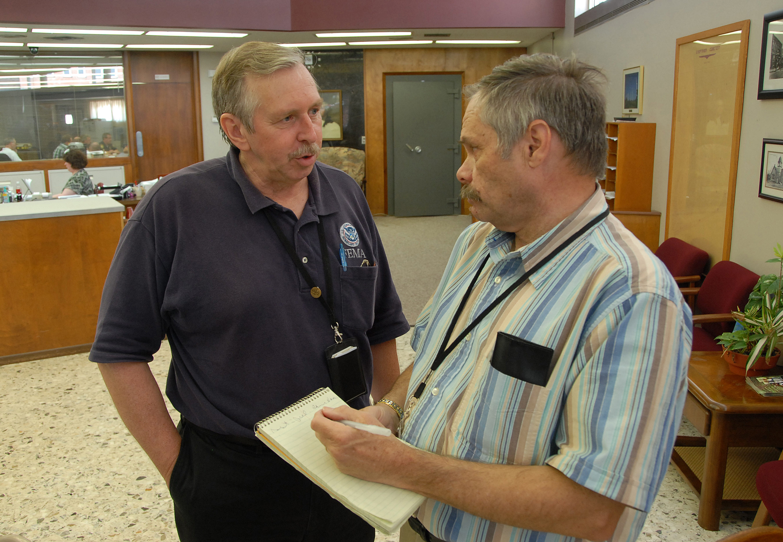 Kingfisher, OK, August 20, 2007 -- Enid News & Eagle Reporter Robert Barron interviews FEMA PIO Charles Henderson about FEMA's role in the recovery efforts from the flooding in Kingfisher. FEMA's Individual Assistance Program has grants and other aid available to help flood victims recover from floods. Marvin Nauman/FEMA photo